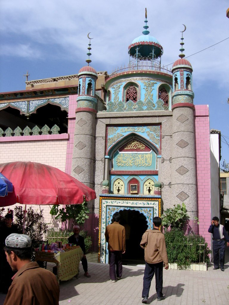 Khotan (Hotan / Hetian) is an oasis city in the Xinjiang Uygur Autonomous Region of the People's Republic of China. Mosque.